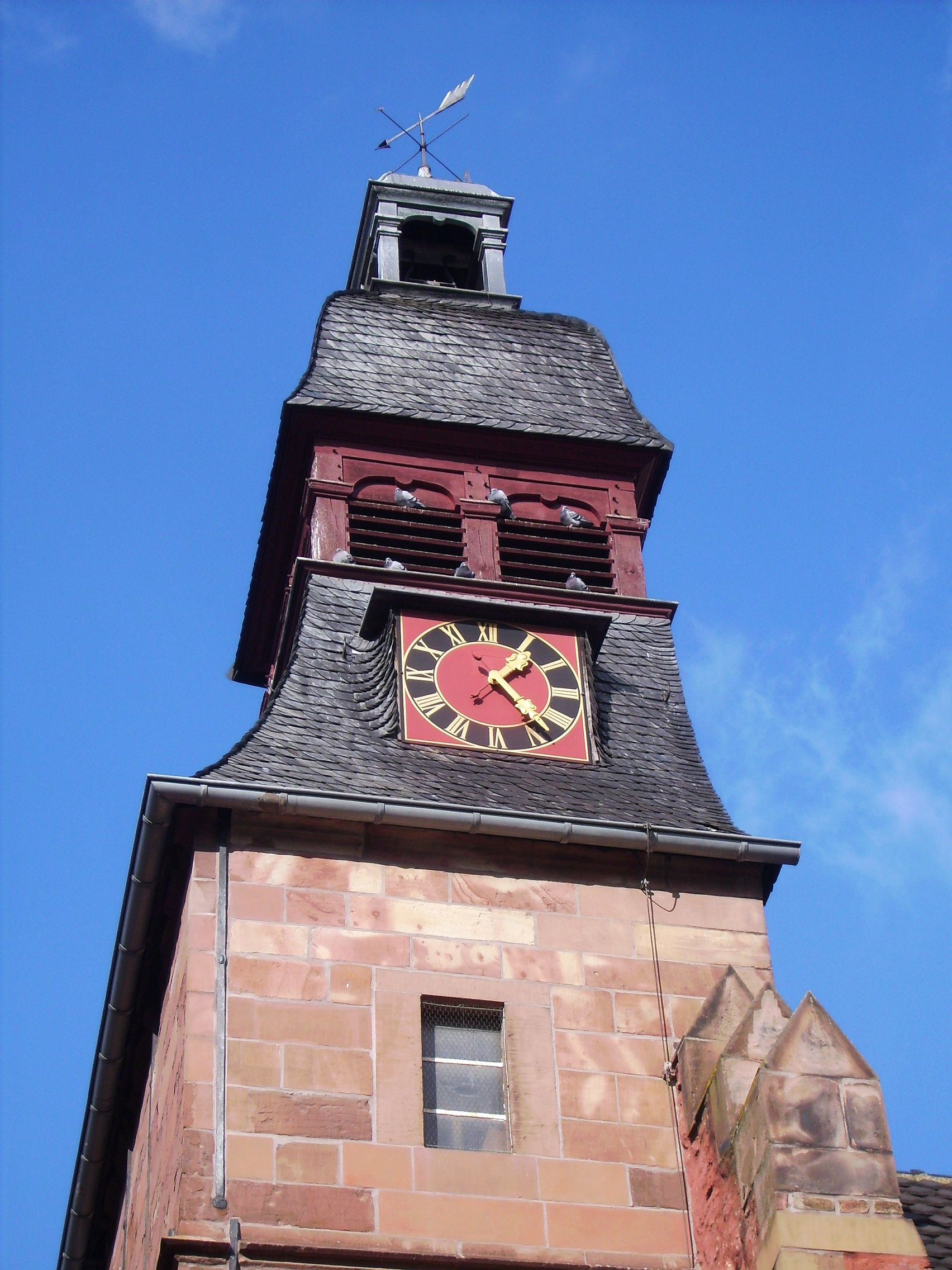 Tower of the old guildhall in Zülpich.